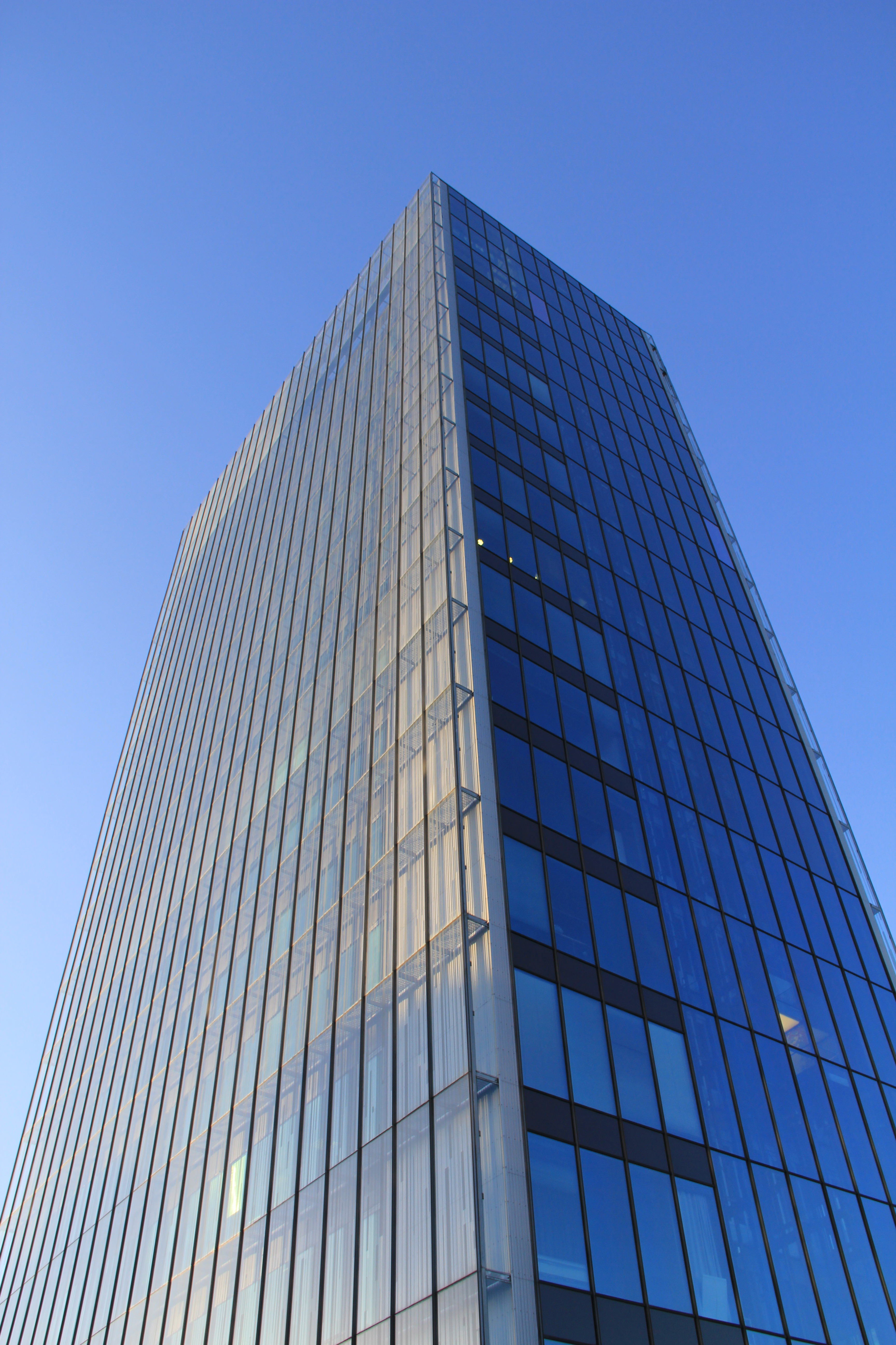 Kone Building, Keilaniemi, Espoo, Finland. Kone Corporation headquarters, completed 2001, architect Antti-Matti Siikala. Southern and western facades.